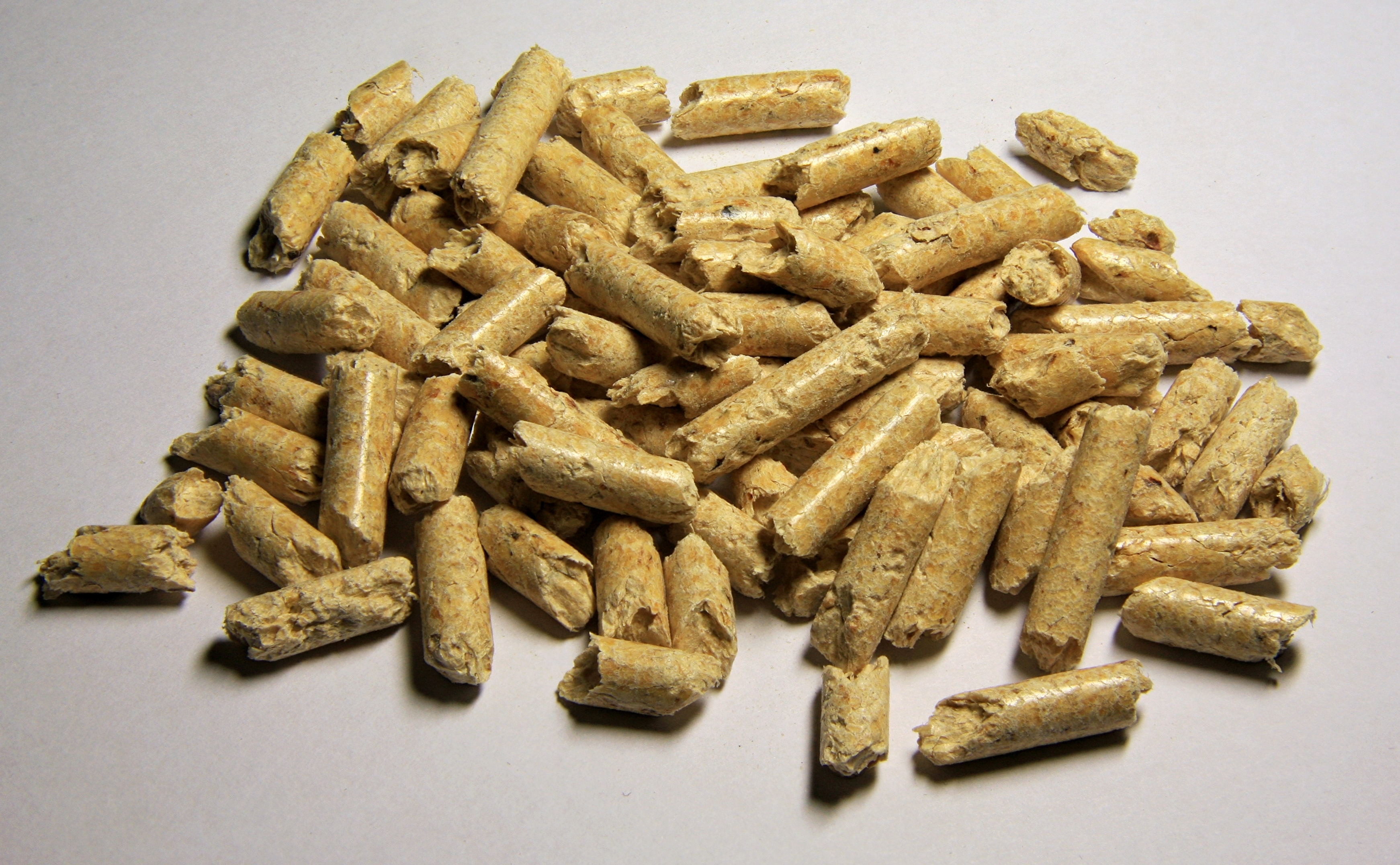 A huddle of wood pellets